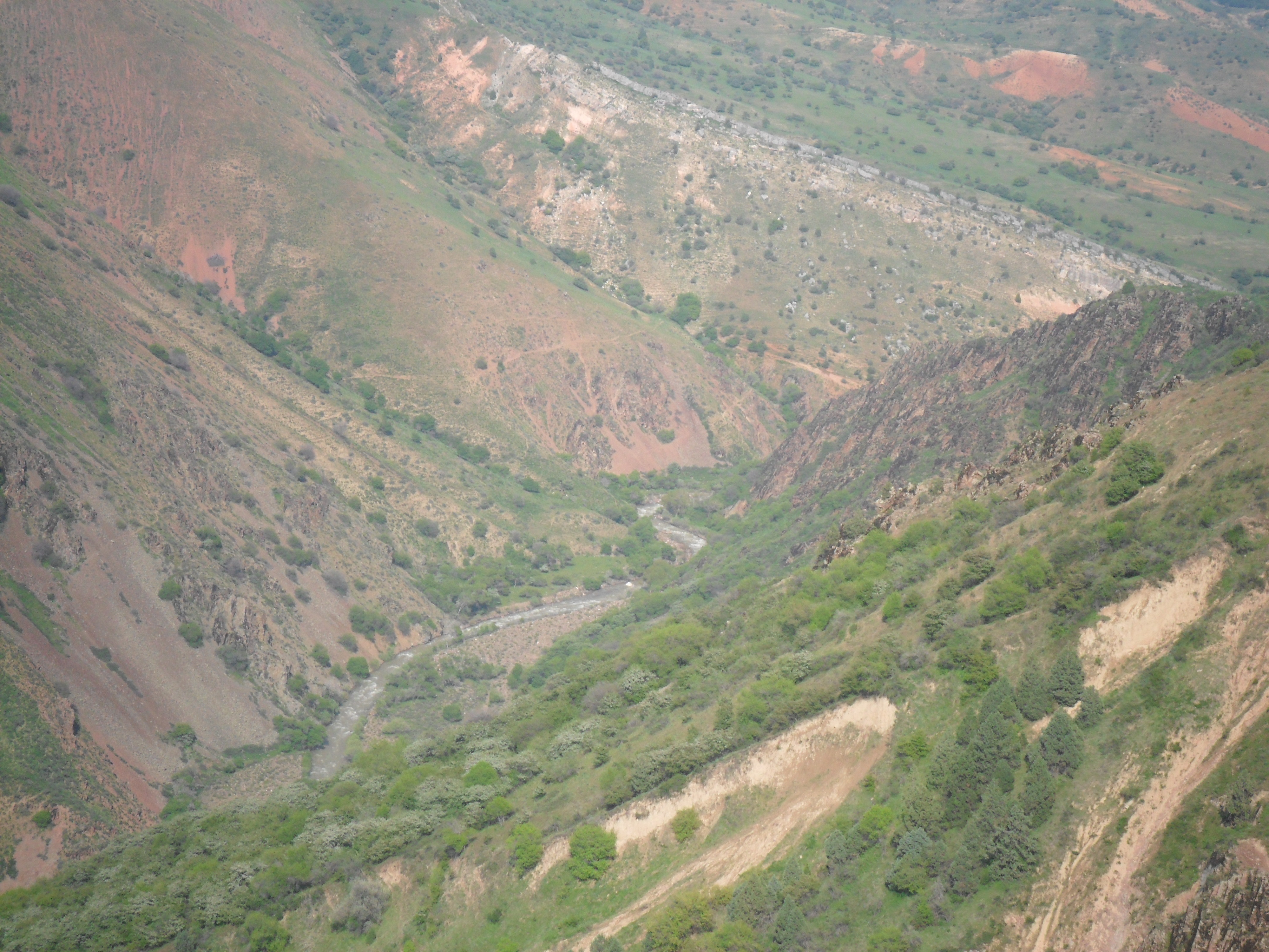 Aksakata river. Tashkent area, Uzbekistan.